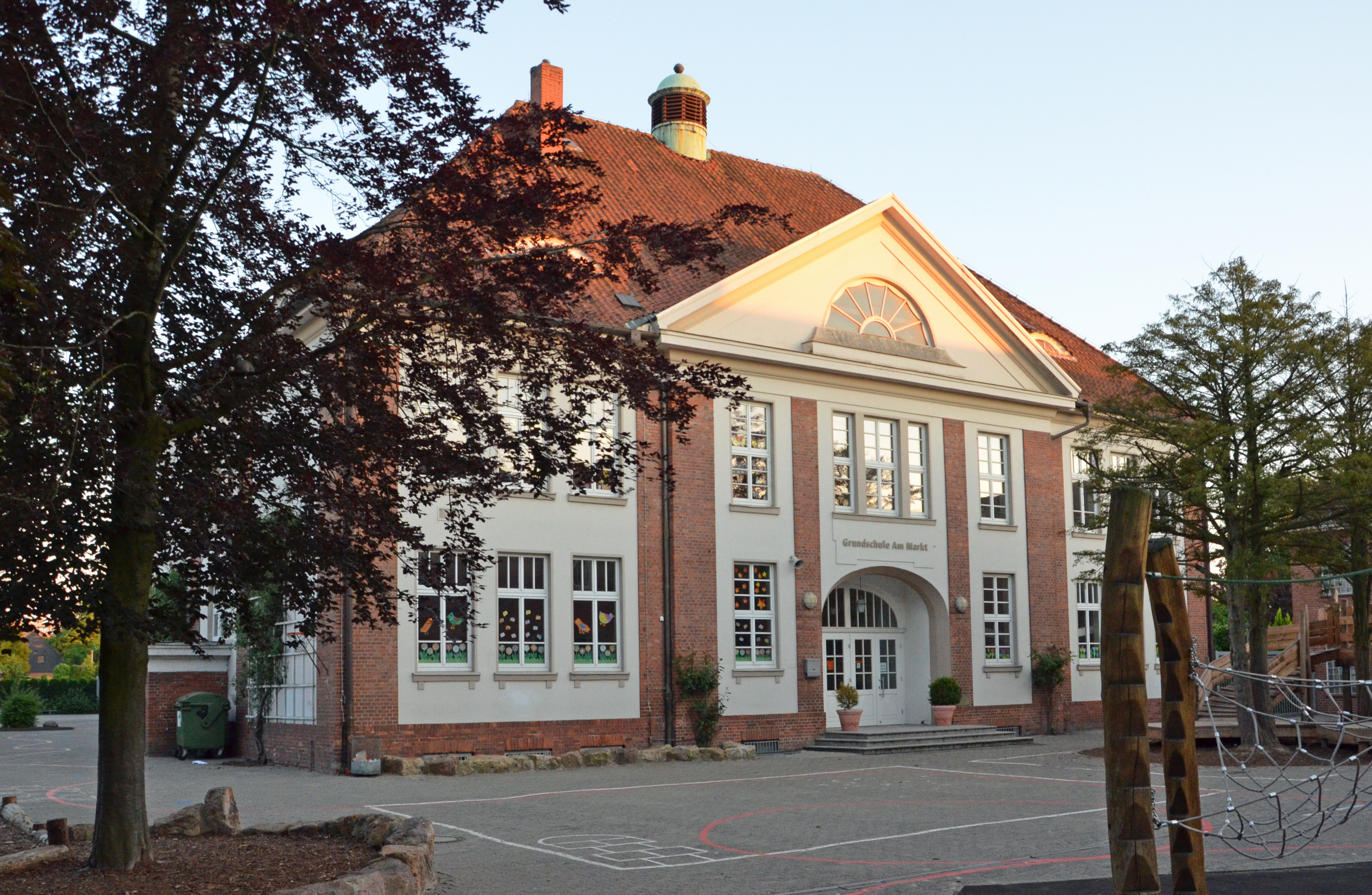 Cultural Heritage Monument in Twistringen School